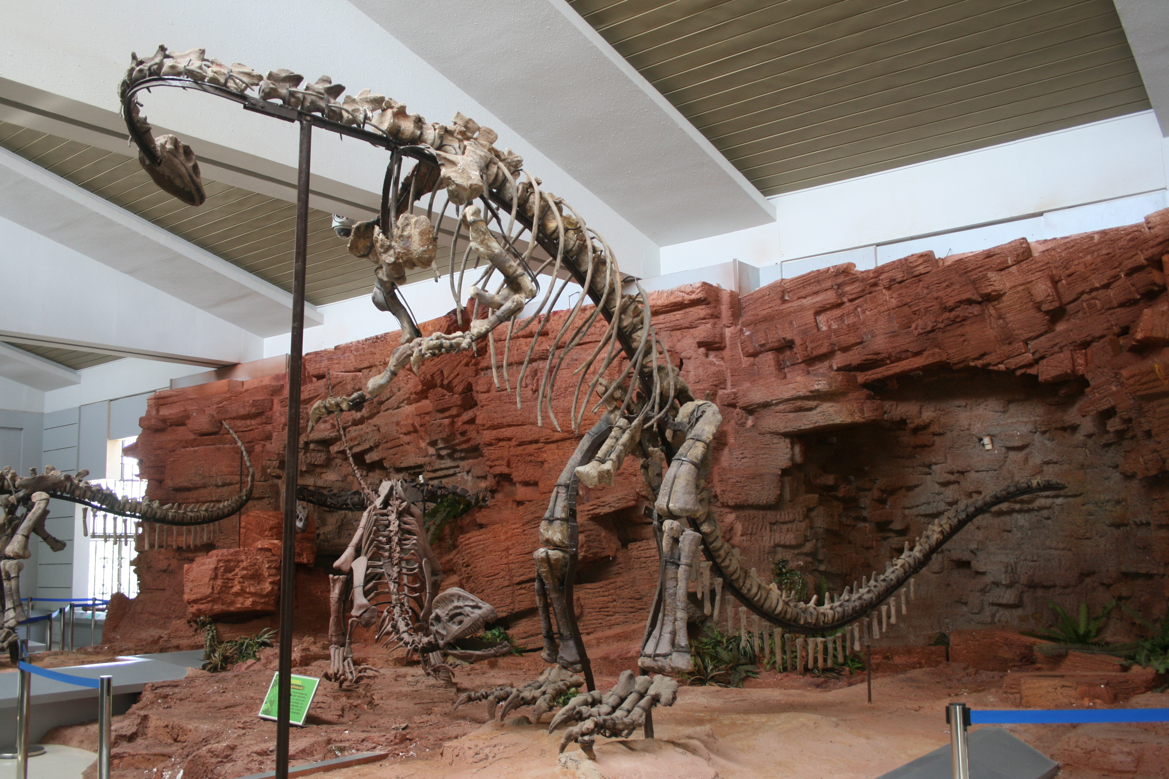 Kunming City Museum, Yunnan. Complete indexed photo collection at .